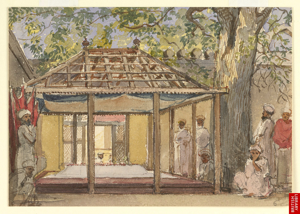 Grave of Mughal Emeperor, Aurangzeb at Khuldabad, Aurangabad, 1850s. "He desired in his will that not more than 8 rupees was to be expended on it" The epitaph reads his own couplet in Persian: Az tila o nuqreh gar saazand gumbad aghniyaa! Bar mazaar e maa ghareebaan gumbad e gardun bas! (از طلا و نقرہ گر سازند گنبد اغنیاء بر مزار ما غریباں گنبد گردون بس). Translation: "The rich may well construct domes of gold and silver on their graves! For the poor folks like me, the sky is enough (of a dome to shelter my grave)!" Aurangzeb like his elder sister Jahan Ara, forbade people to raise mausoleums on their graves like his father's Taj Mahal. His grave lies in open ground at Khuldabad like his sister's ordinary grave at the shrine of Shaikh Nizam-u'd-din Auliya at Delhi. The grave lies within the courtyard of the shrine of the Sufi saint Shaikh Burhan-u'd-din Gharib (died 1331). This disciple of Nizam ud-Din Auliya of Delhi was buried at Khuldabad near Aurangabad.